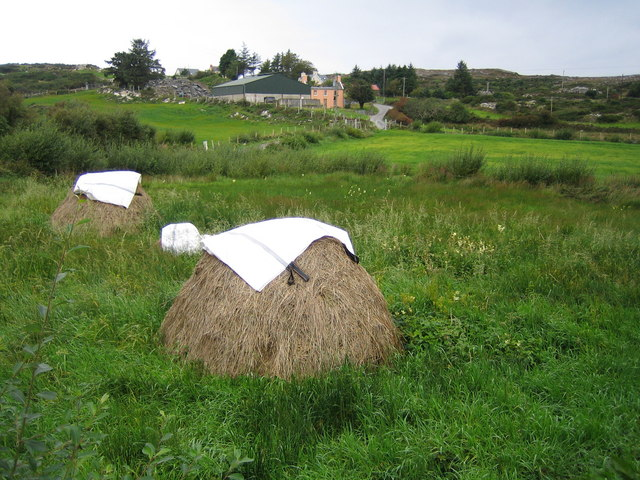 Lackareagh I know these traditional small haystacks as stooks, but no doubt they are known by a different word in Ireland. There is also a novel use of builders' disposal sacks as the "bonnets". The townland is Lackareagh.